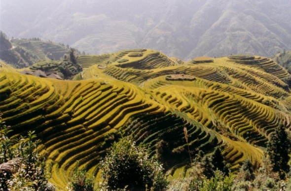 Rice terraces, Ping'an, Guangxi, China